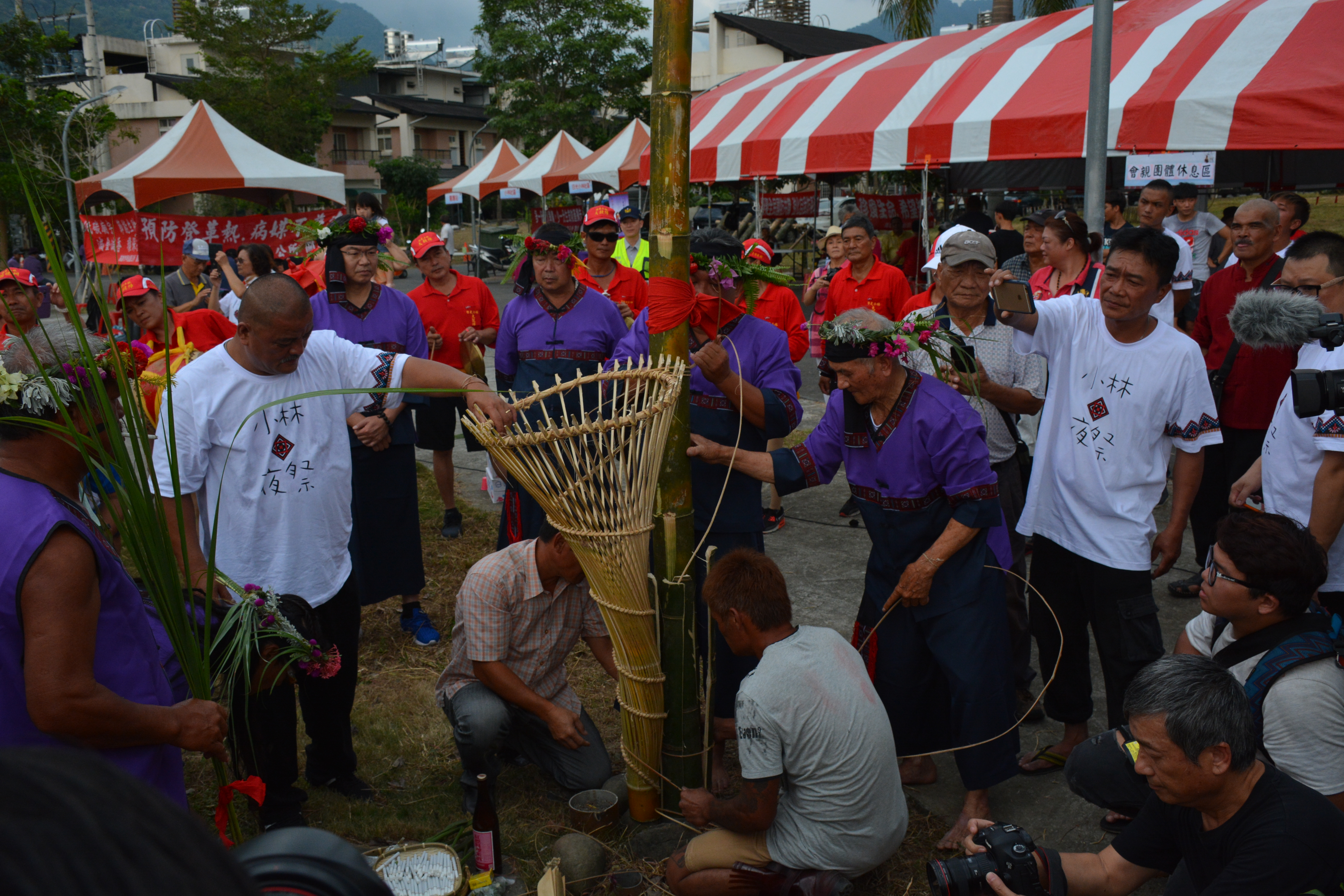 The indigenous Taivoan people erected "Xiang Bamboo" on the annual Night Ceremony. 中文（台灣）: 小林村大武壠族夜祭立向竹儀式。